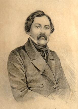 Portrait of the painter Vasily (Georg) Timm (1820-1895)